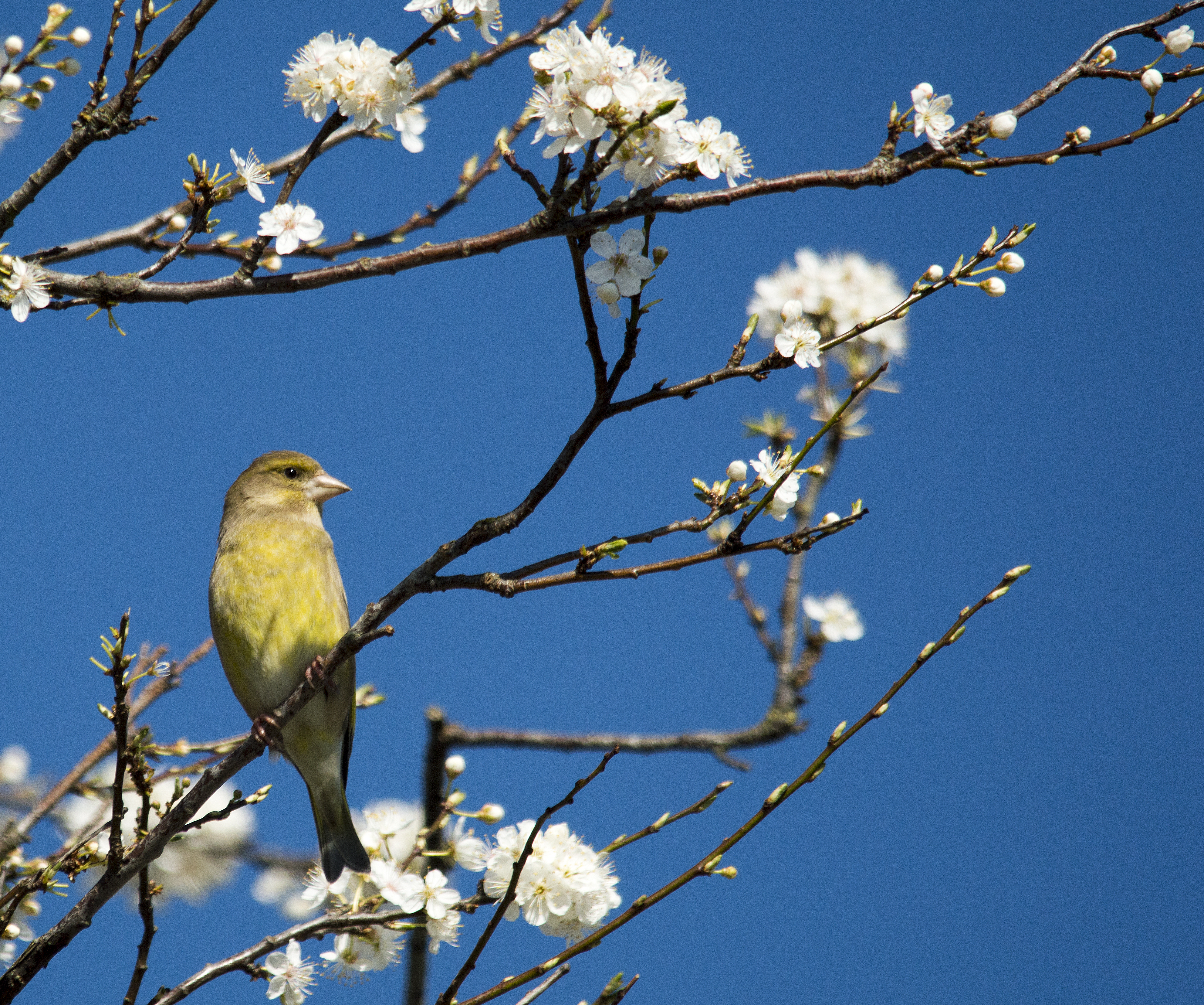 Taken at my local park. Its twittering and wheezing song, and flash of yellow and green as it flies, make this finch a truly colourful character. Nesting in a garden conifer, or feasting on black sunflower seeds, it is a regular garden visitor, able to take advantage of food in rural and urban gardens. Although quite sociable, they may squabble among themselves or with other birds at the bird table. Greenfinch populations declined during the late 1970s and early 1980s, but increased dramatically during the 1990s. A recent decline in numbers has been linked to an outbreak of trichomonosis, a parasite-induced disease which prevents the birds from feeding properly. Status: Green Population: UK Breeding: 1,700,000 pairs